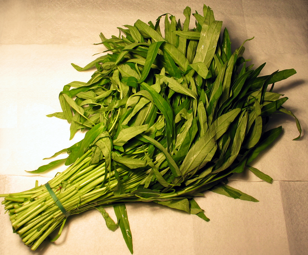 Ong choy water spinach leaf.